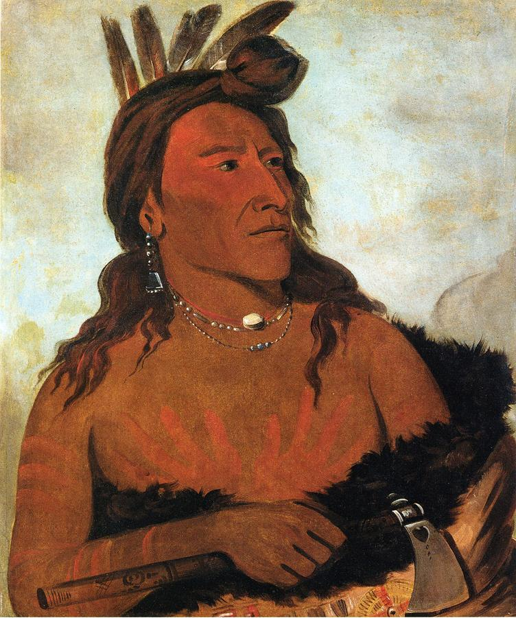 "Little Bear, Hunkpapa Brave," oil on canvas, by American artist George Catlin. Courtesy of the National Museum of American Art.